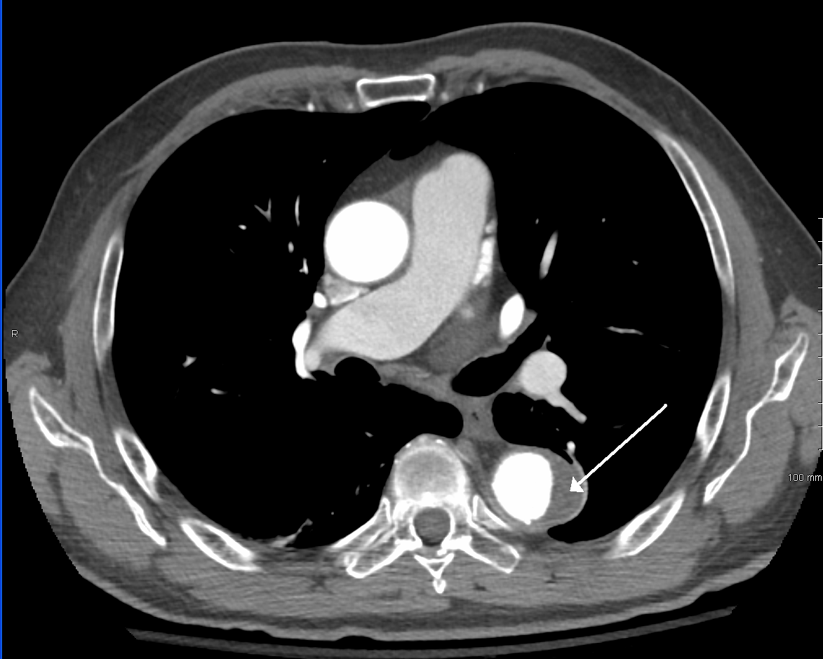 A healed type B dissection of the thoracic aorta